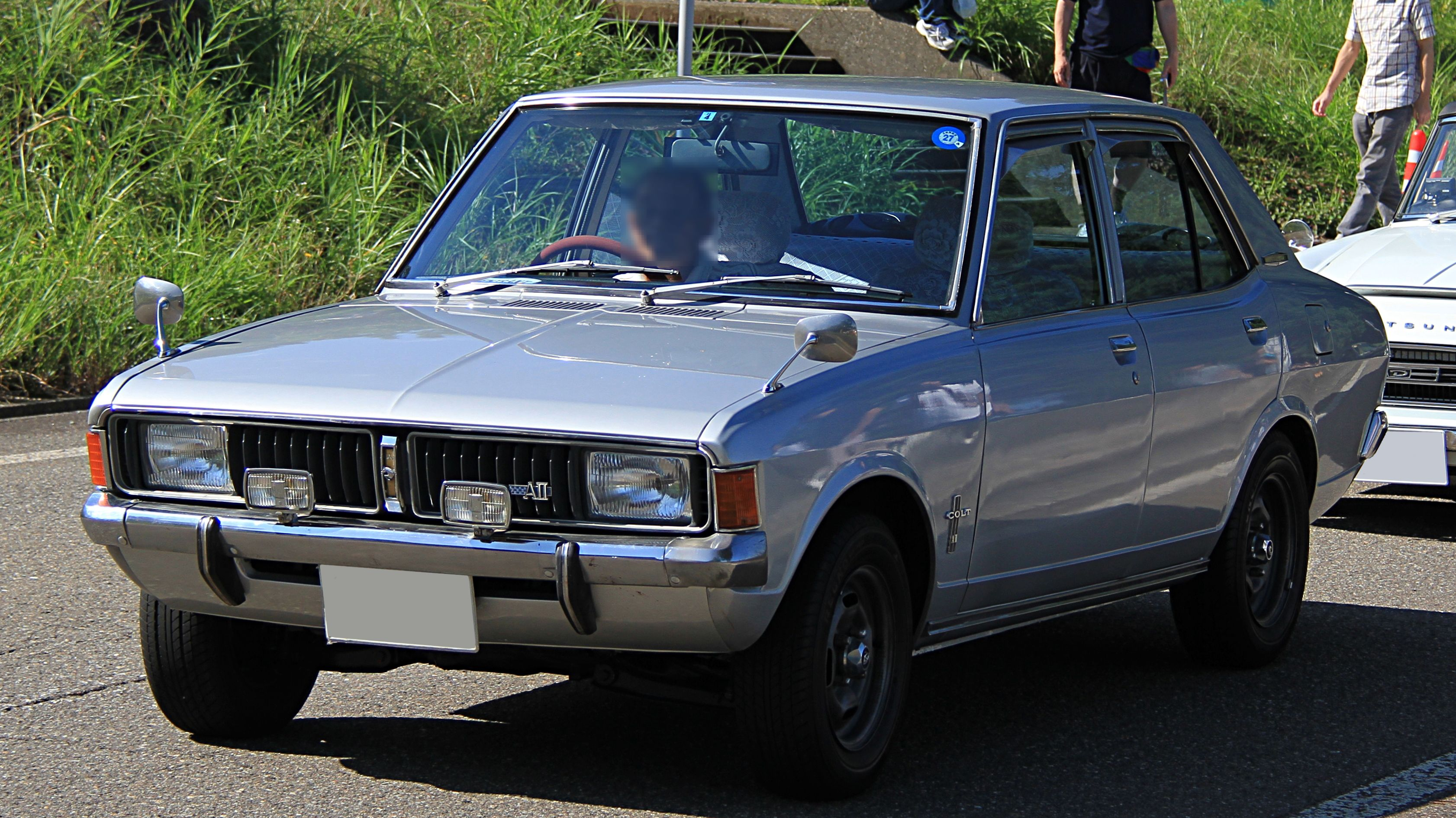 Mitsubishi Colt Galant